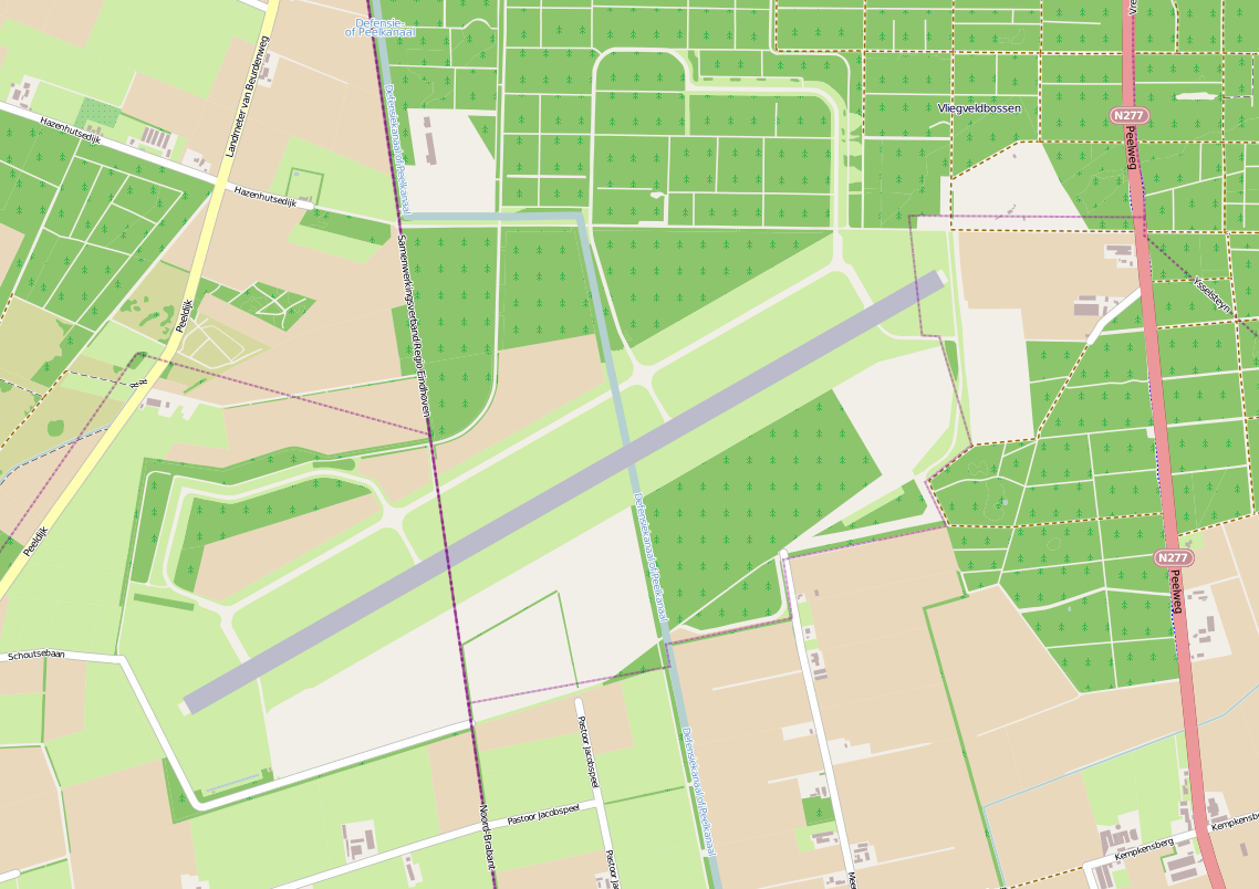 Open Street Map of the De Peel Airbase, further cropped using GIMP.